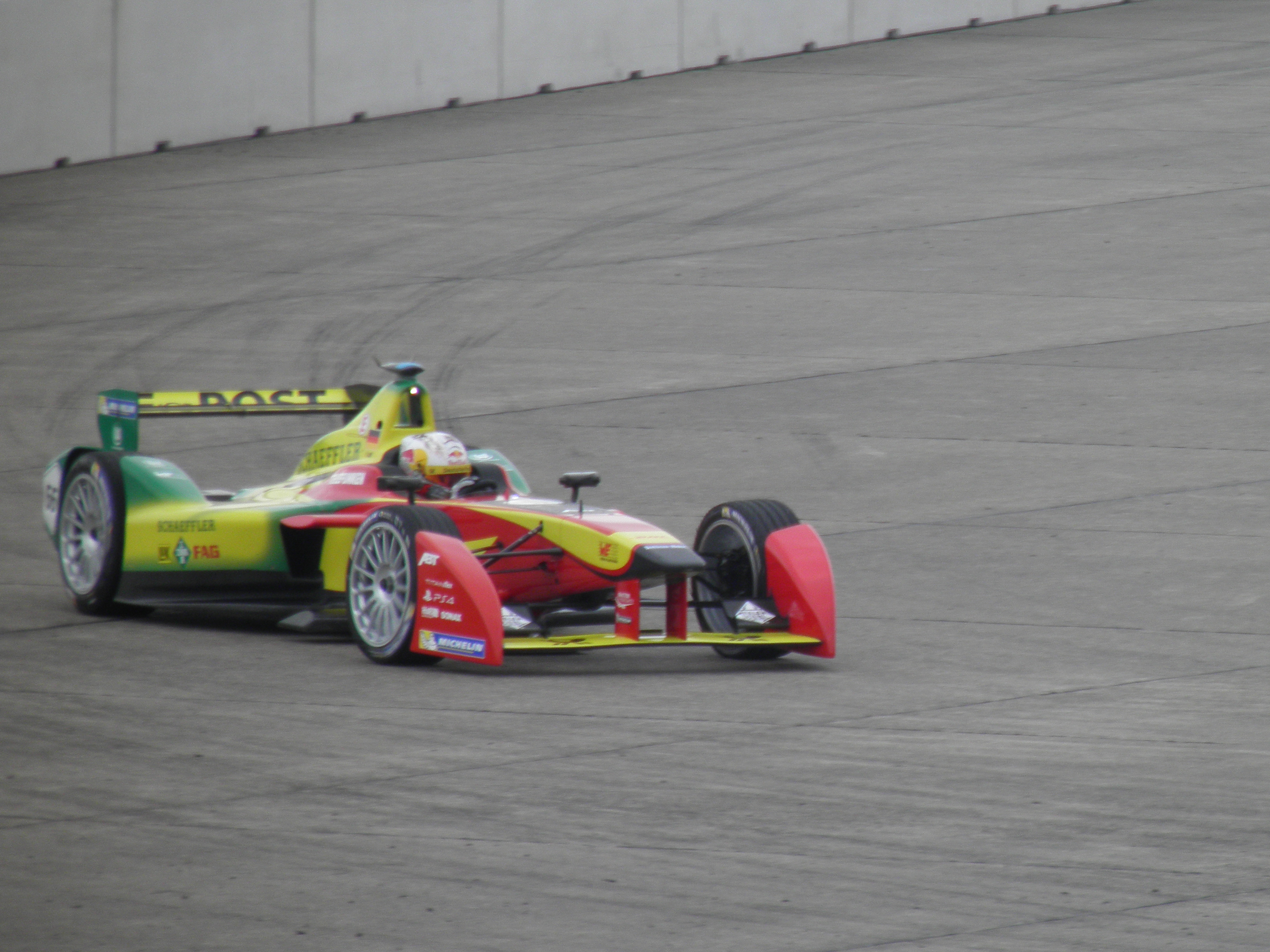 Daniel Abt, ABT, driving in Berlin ePrix on May 23, 2015